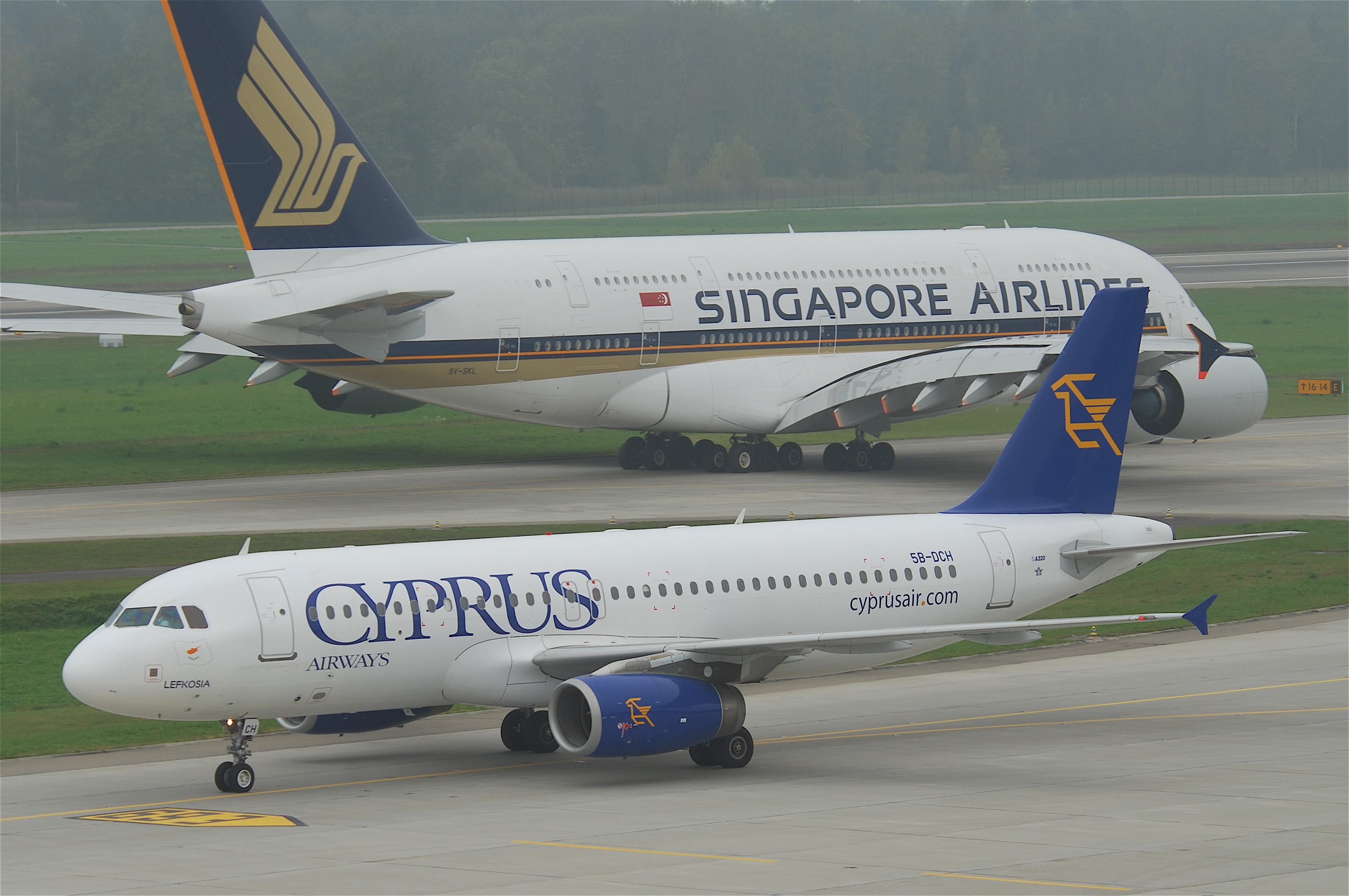 Cyprus Airways Airbus A320-232; 5B-DCH@ZRH;30.09.2011/619eb